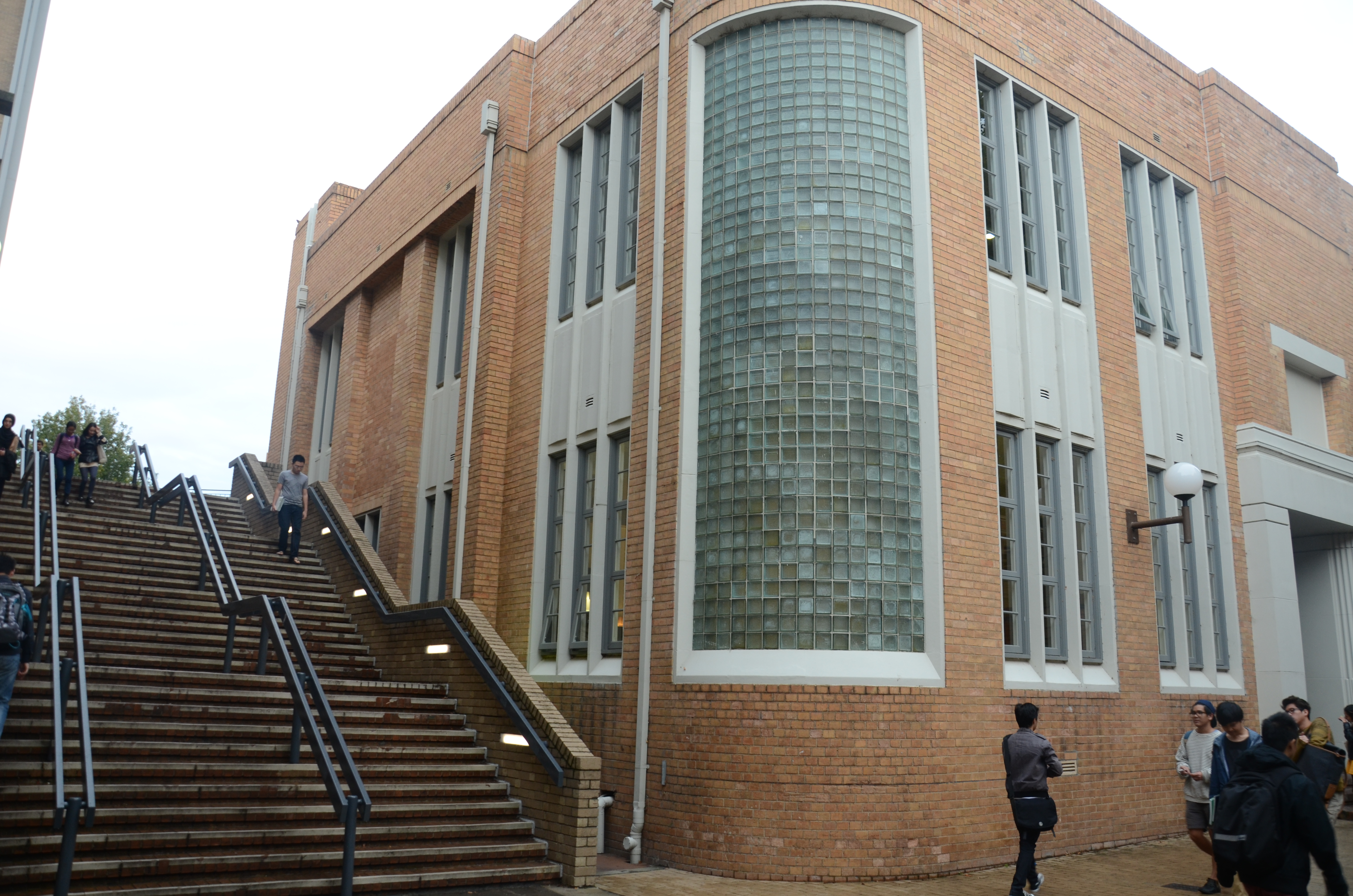 Full Resolution: (4928 × 3264 pixels, file size: 5.28 MB, MIME type: image/jpeg)�